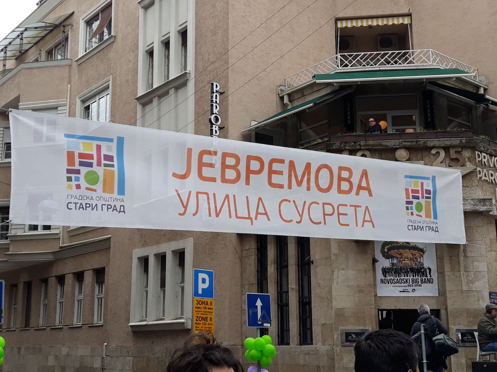 Manifestation of the Palm Sunday at Gospodar Jevremova street in Belgrade, Serbia Srpski (latinica): Manifestacija na praznik Cveti u Ulici gospodar Jevremovoj u Beogradu